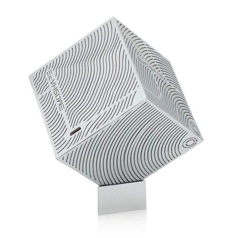 EmoSPARK